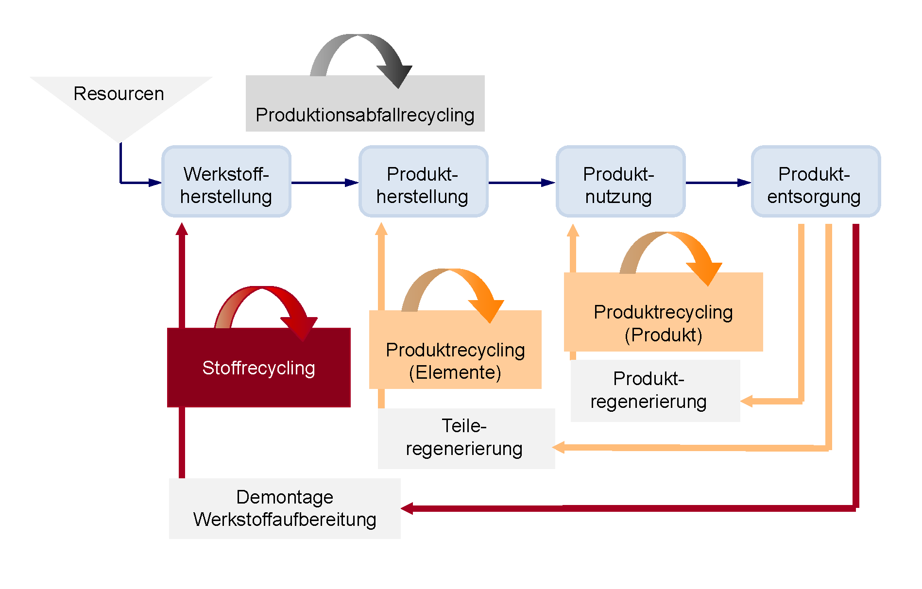 The recycling process of any product can be differentiated into production waste recycling and two loops for disposal of the product (product and material recycling)